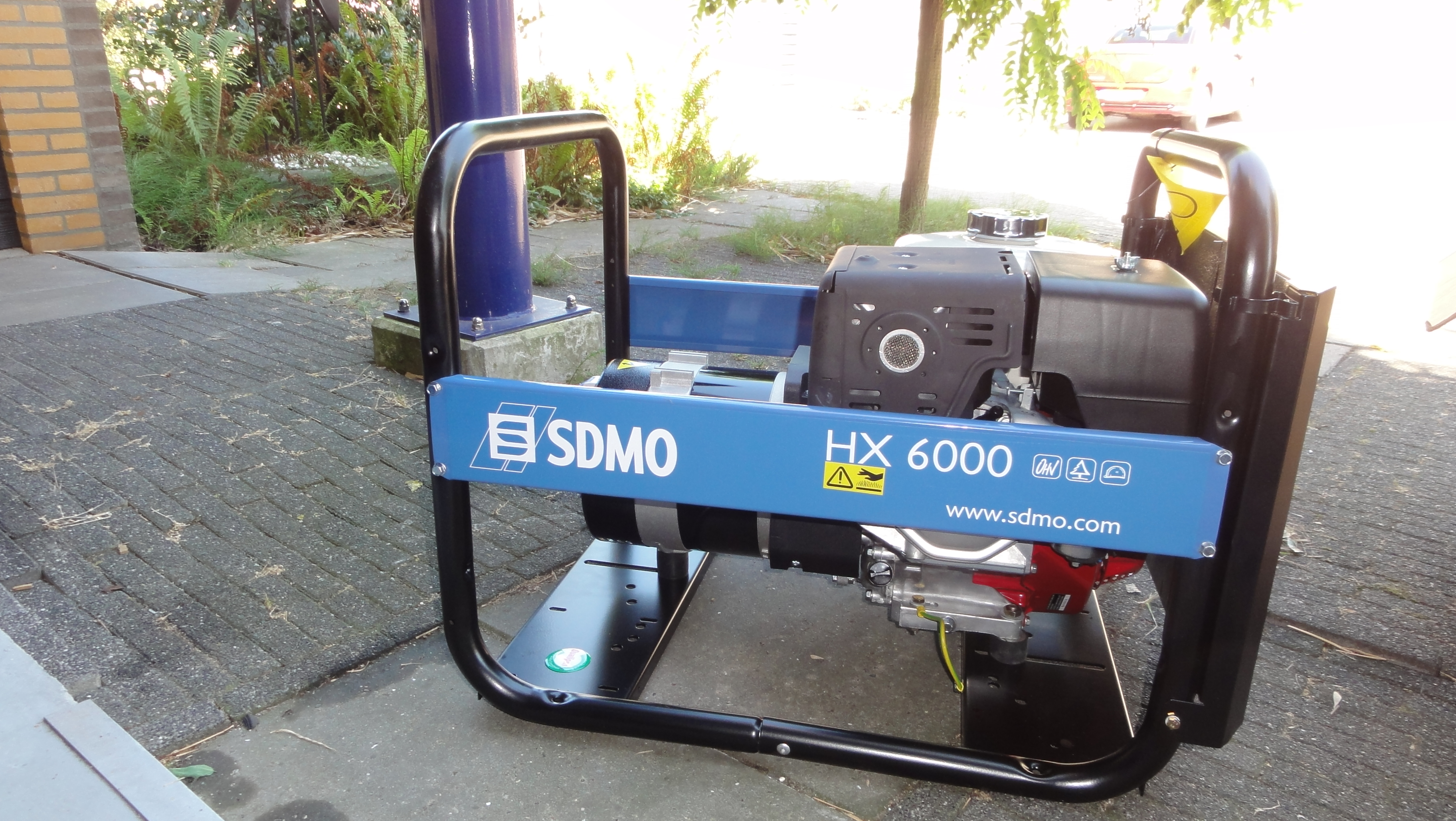 A gas generator 230V